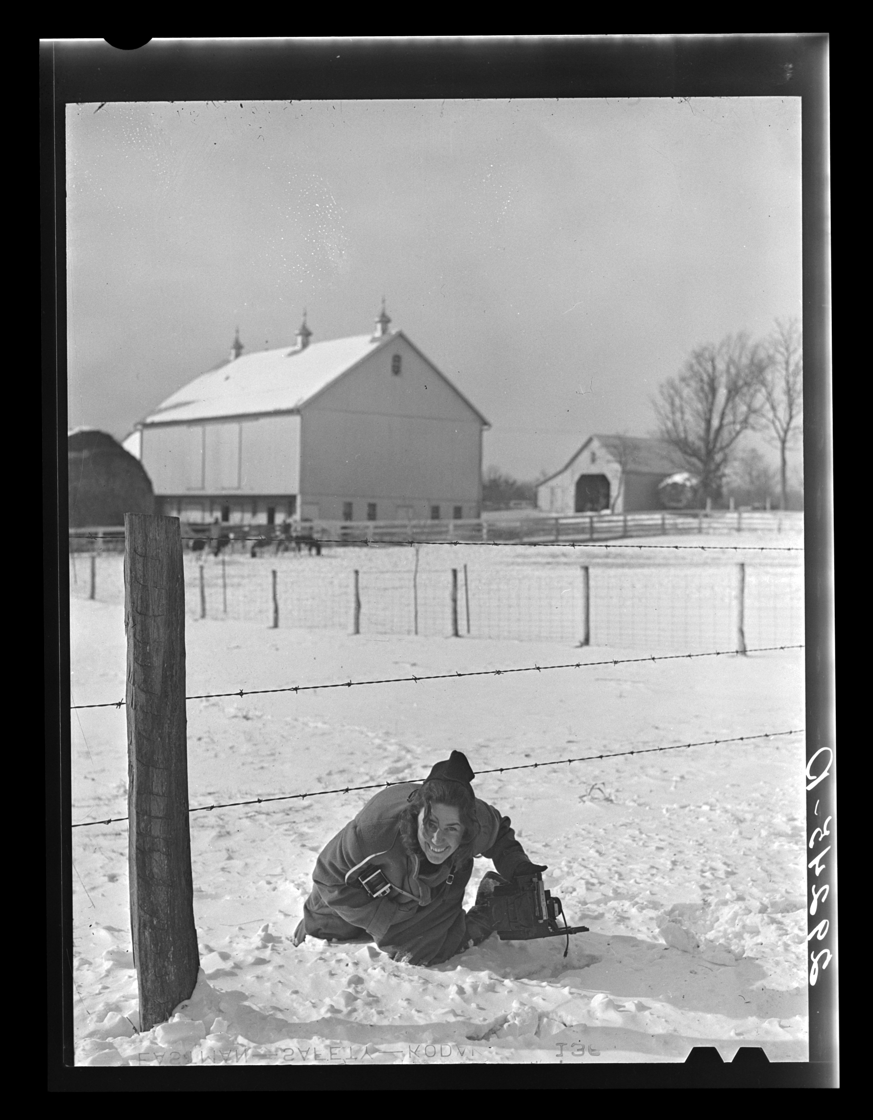 Marion Post Wolcott with Rolleiflex and Speed Graphic in hand in Montgomery County, Maryland